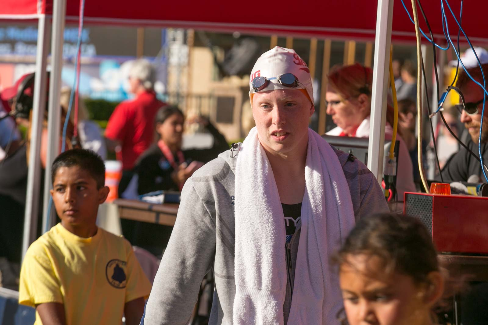 Lilly King before 200 breaststroke